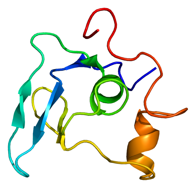 Structure of the FBN1 protein. Based on PyMOL rendering of PDB 1apj.